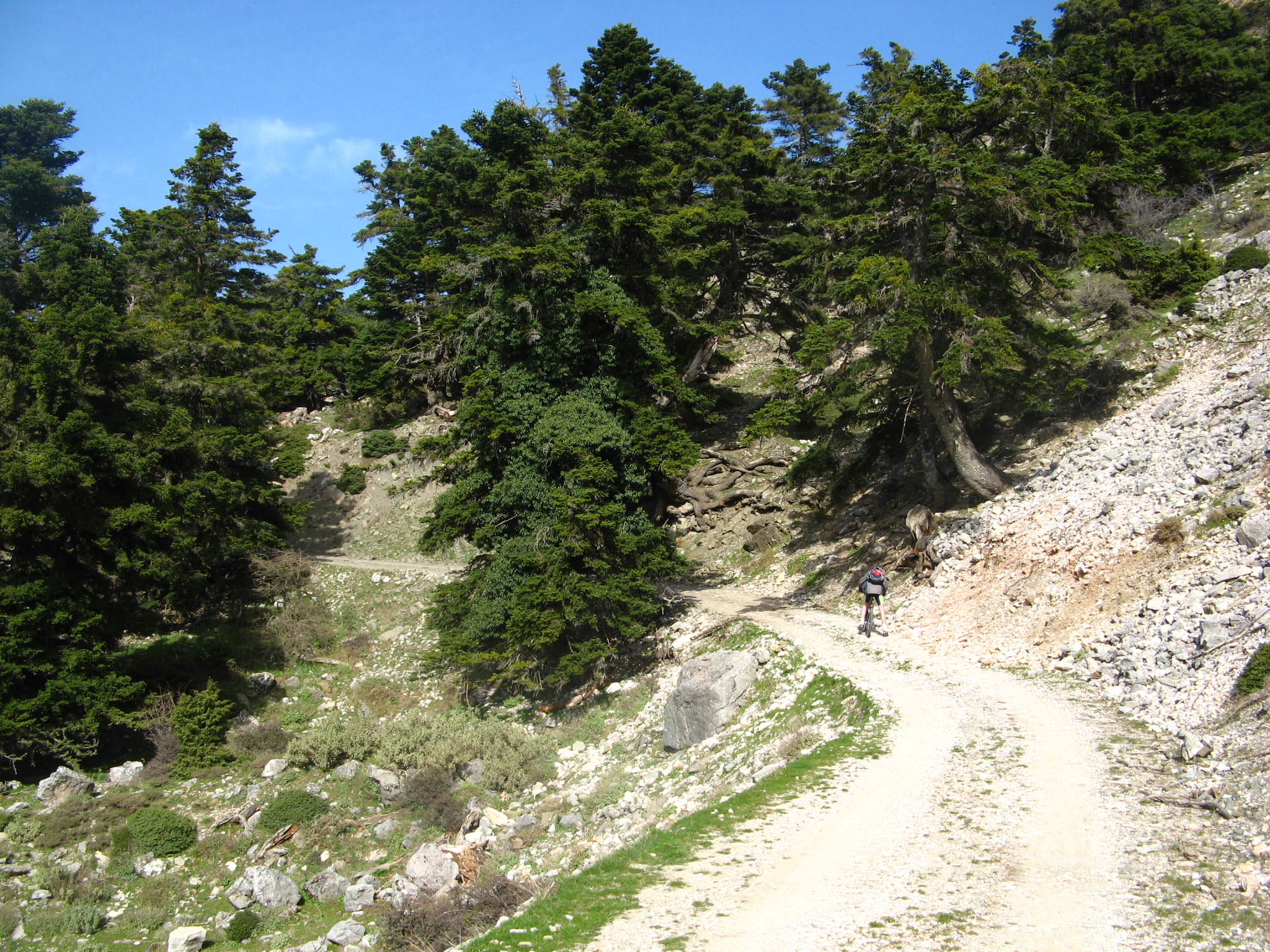 Ascending path, Panachaiko Mountains, Greece, with Abies cephalonica forest